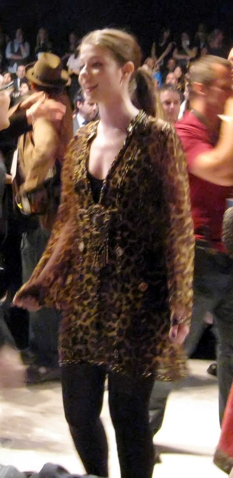 American actress Michelle Trachtenberg, presumably doing an interview